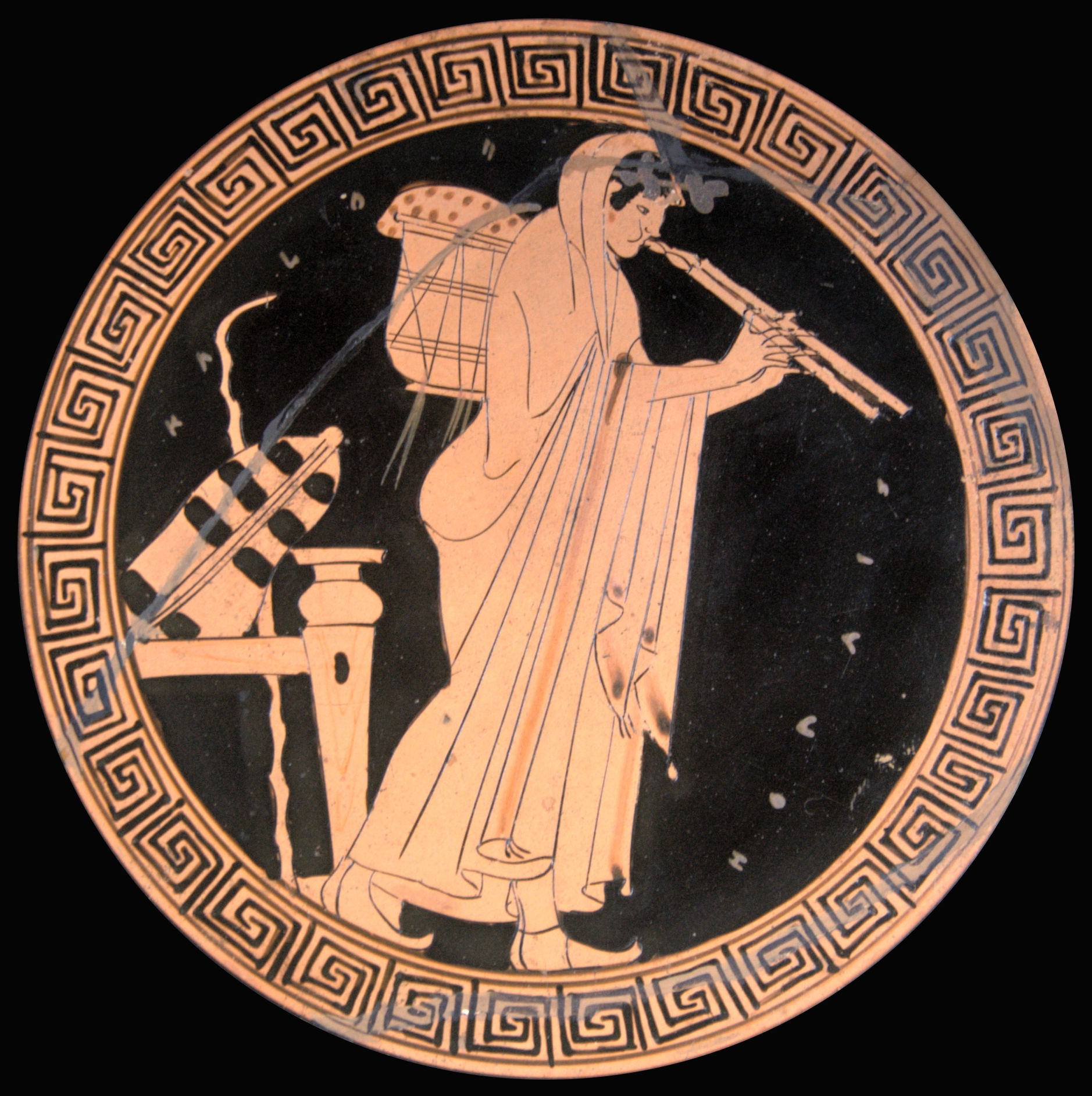 Aulos player. Attic red-figured kylix, ca. 490 BC. From Vulci.